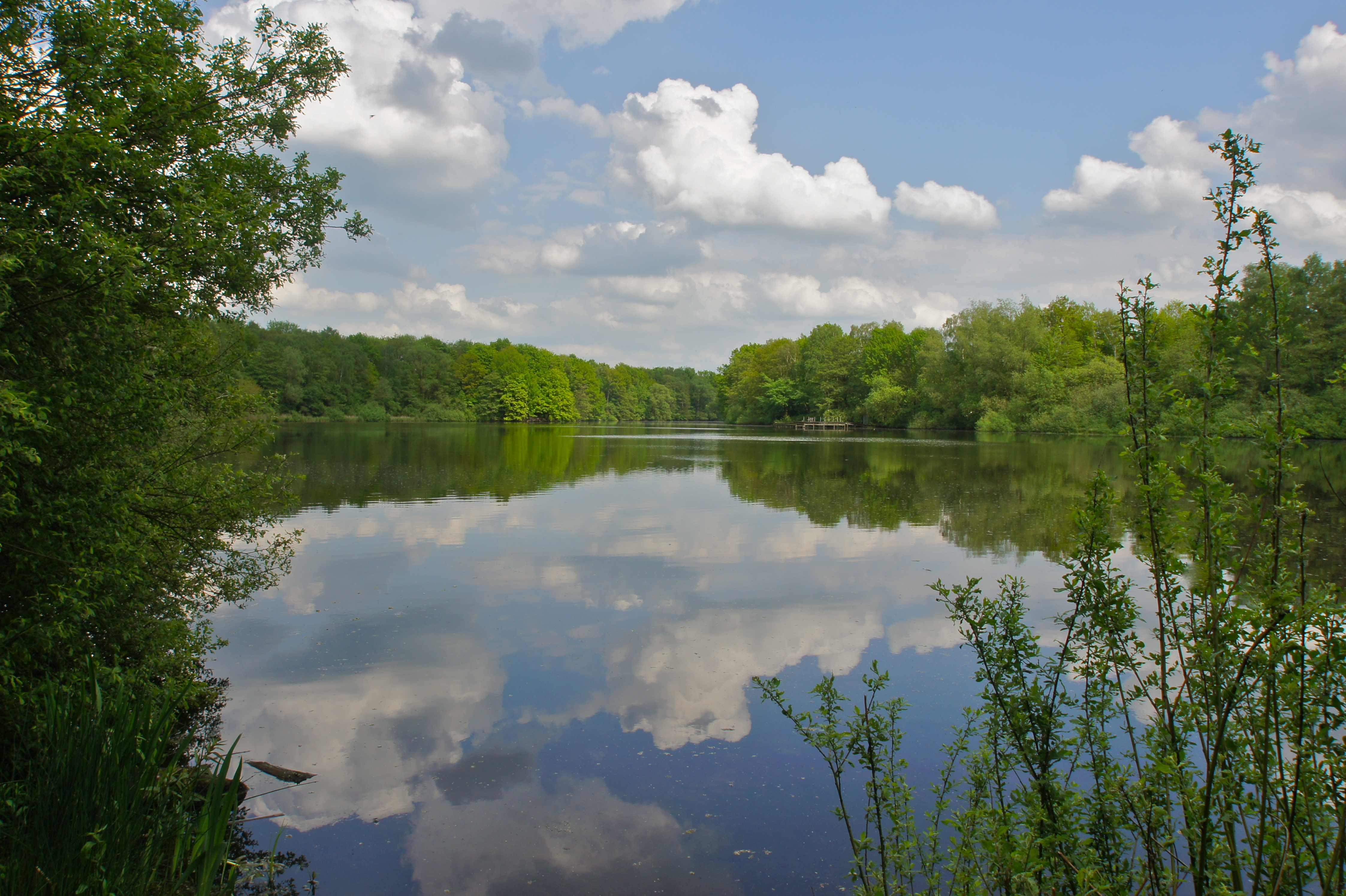 Hamburg (Steilshoop), Germany: The Bramfelder See tand the Island as seen from the north bank